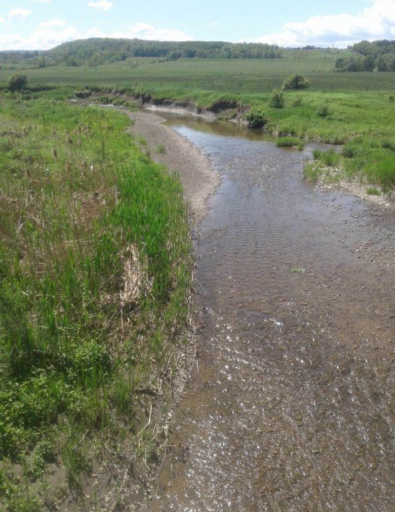 Brimstone Creek from west ames road looking upstream. Budd Hill is in the background. Taken May 2019.